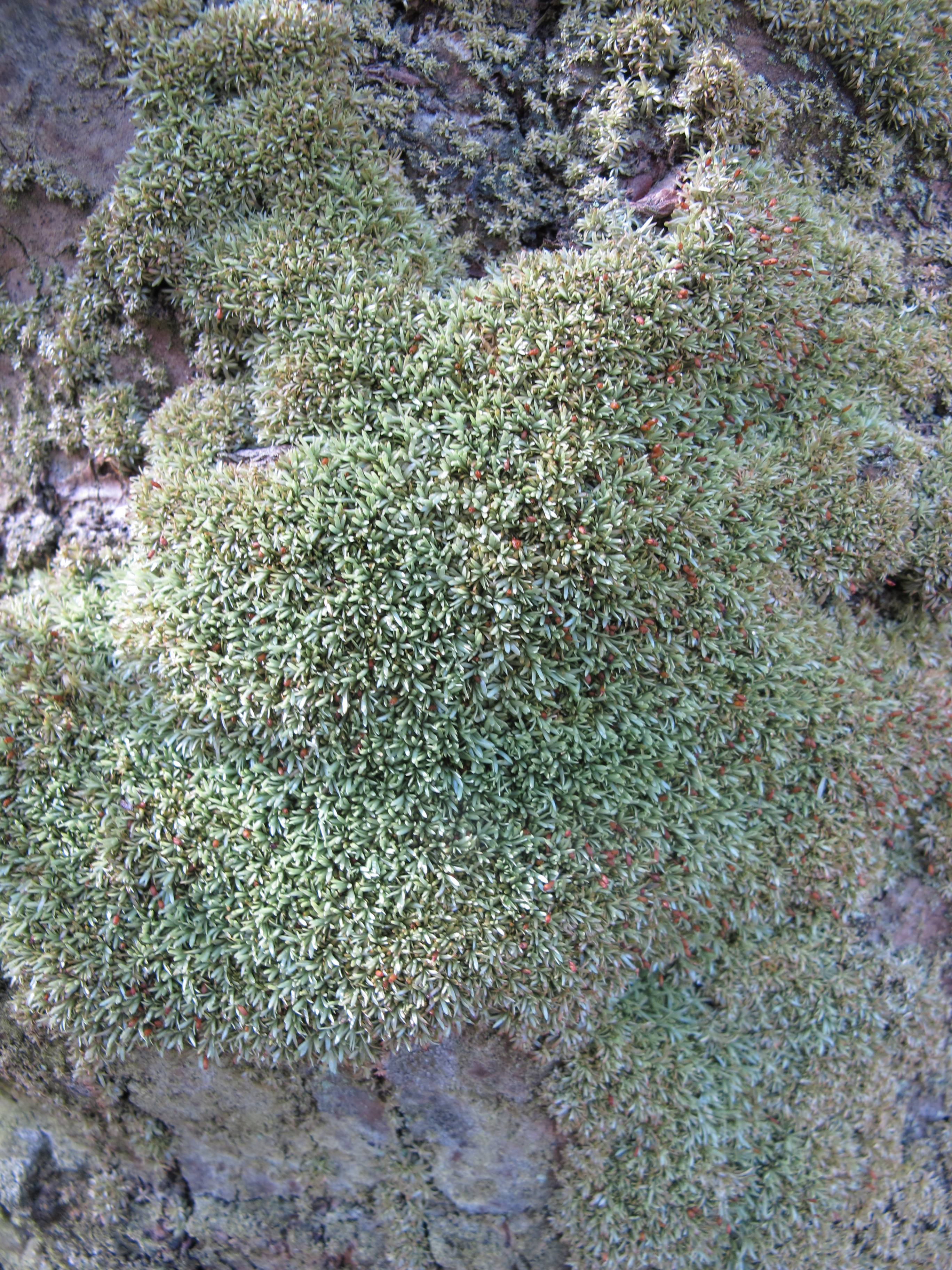 on the trunk of Sabal palmetto, Florida International University, Miami, Florida, USA.